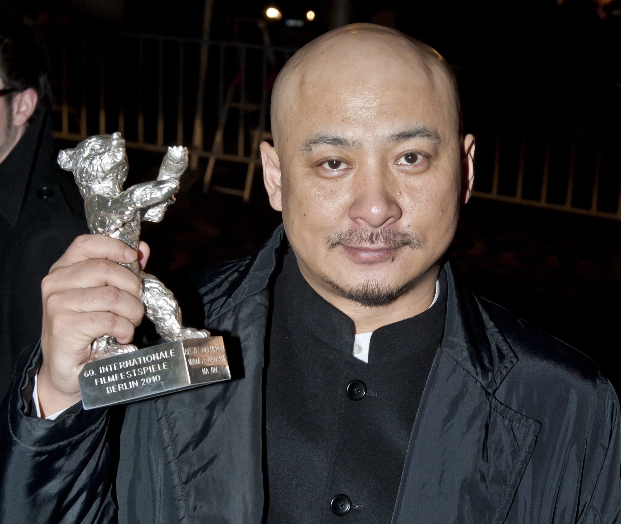 Chinese film director Wang Quan'an, won the Best Script award at the 60th Berlin International Film Festival with co-writer Na Jin